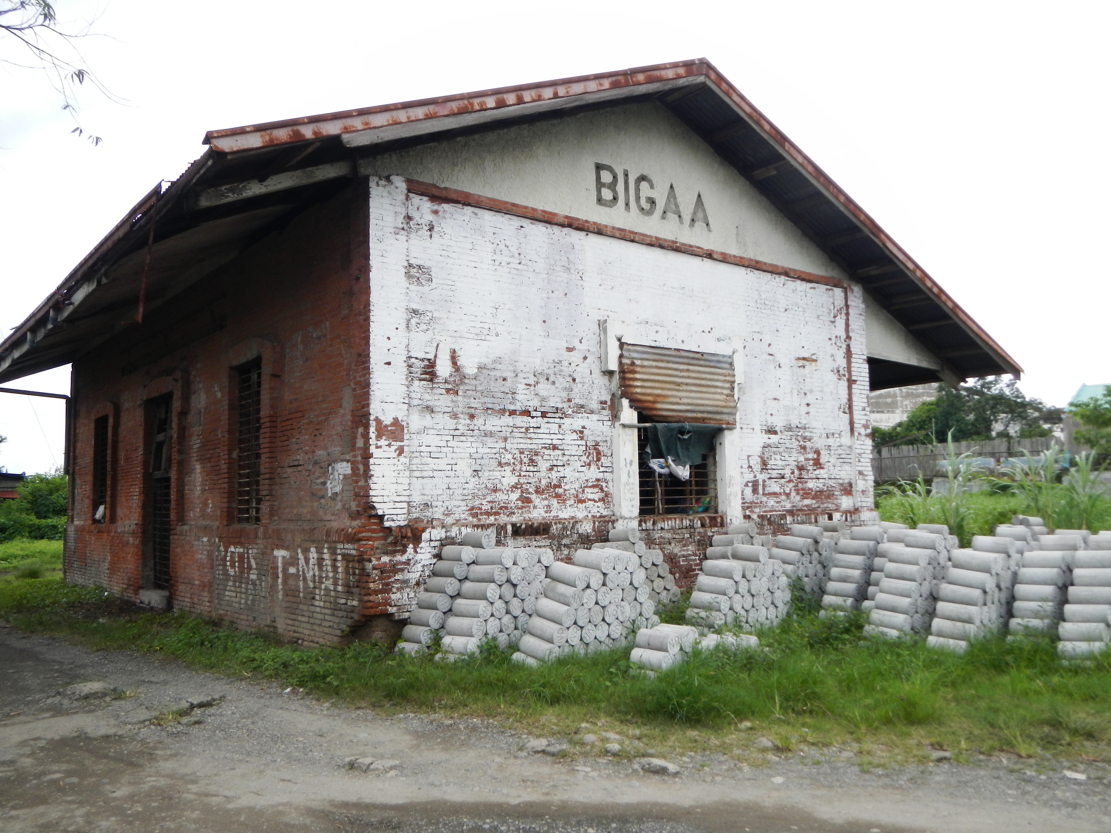 Barangay Burol 1, Balagtas, Bulacan - Balagtas railway station or Balagtas Northrail Station which failed remains unfinished and is the site of the Heritage Bigaa PNR Station Sub-Parish Church of San Isidro Labrador, Milaflor Subdivision, Burol 1, Balagtas, Bulacan along Pandi-Balagtas Provincial Road.